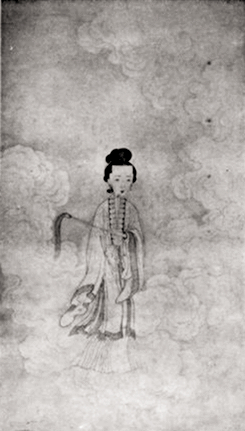 Black-and-white photograph of Empress Xiaoquan's informal portrait